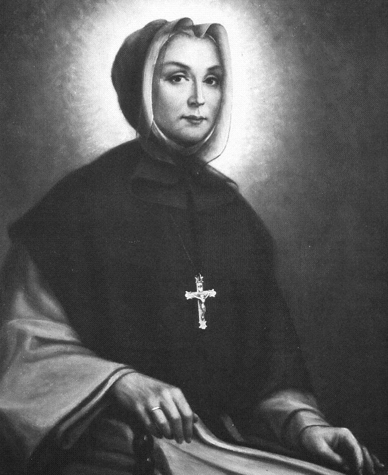 Margueritte d'Youville